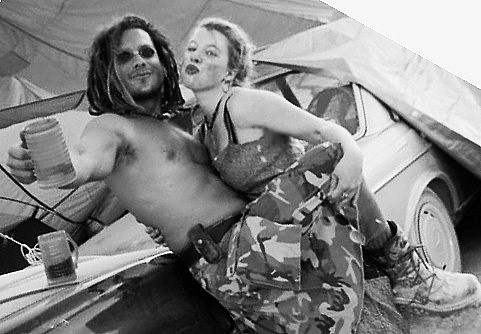 Steven Villegas and Megan Haas, founders of the Utilikilts Company.